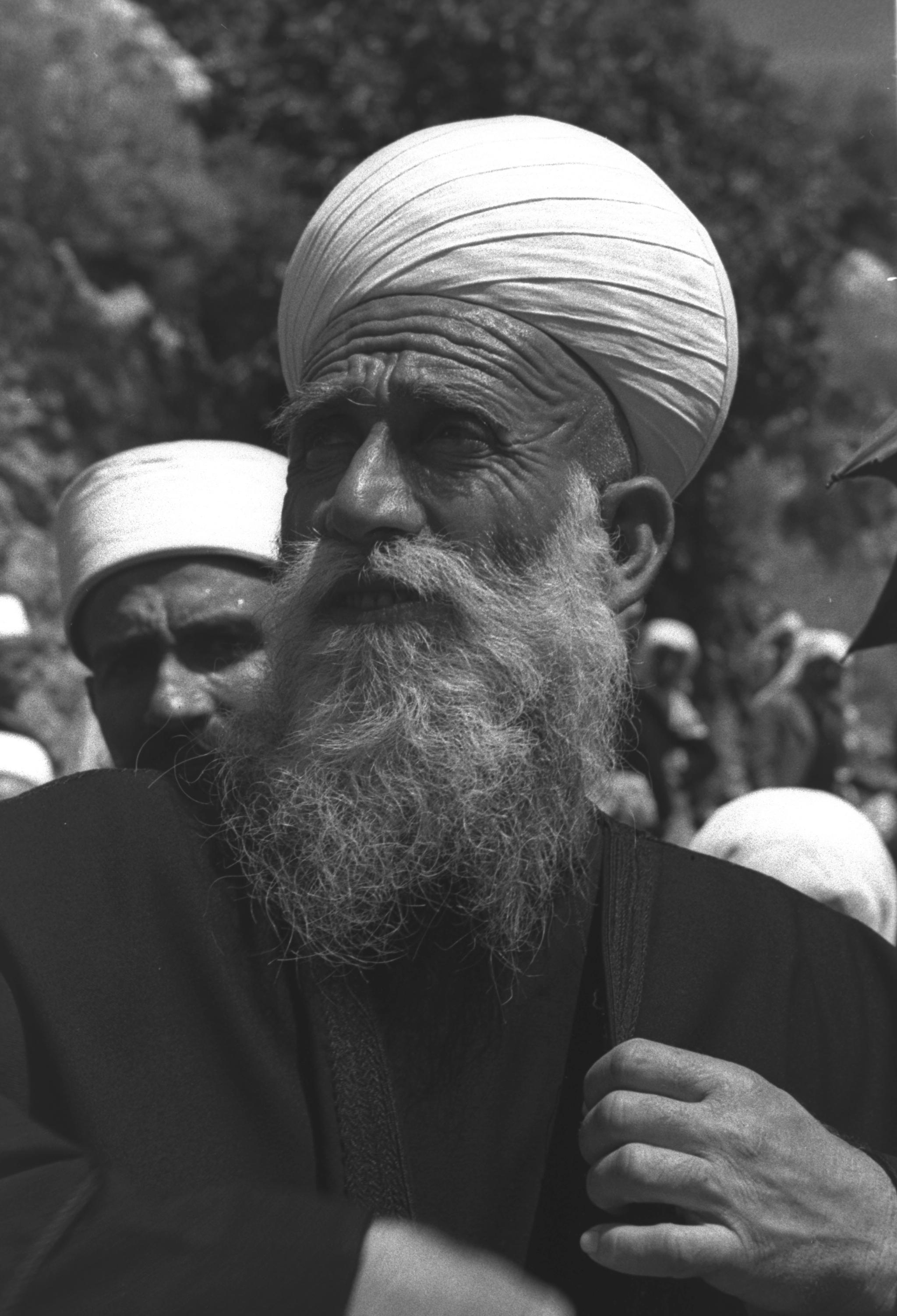 Original Description: SHEIK AMIN TARIF, SPIRITUAL LEADER OF THE DRUZE, SPEAKS DURING THE NEBI SHUIEB CELEBRATION IN KFAR HITTIM. الشيخ أمين طريف القائد الروحي لطائفة الموحدين الدروز يتحدث أثناء احتفال في النبي شعيب